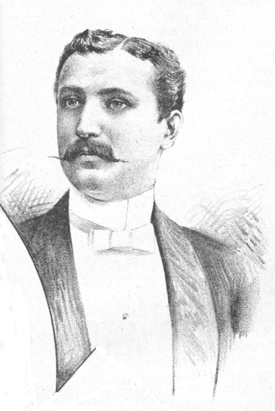 Portrait of Albert Paul (1856-1928), German actor. Cropped from a gallery of artists engaged by theaters in Dresden.